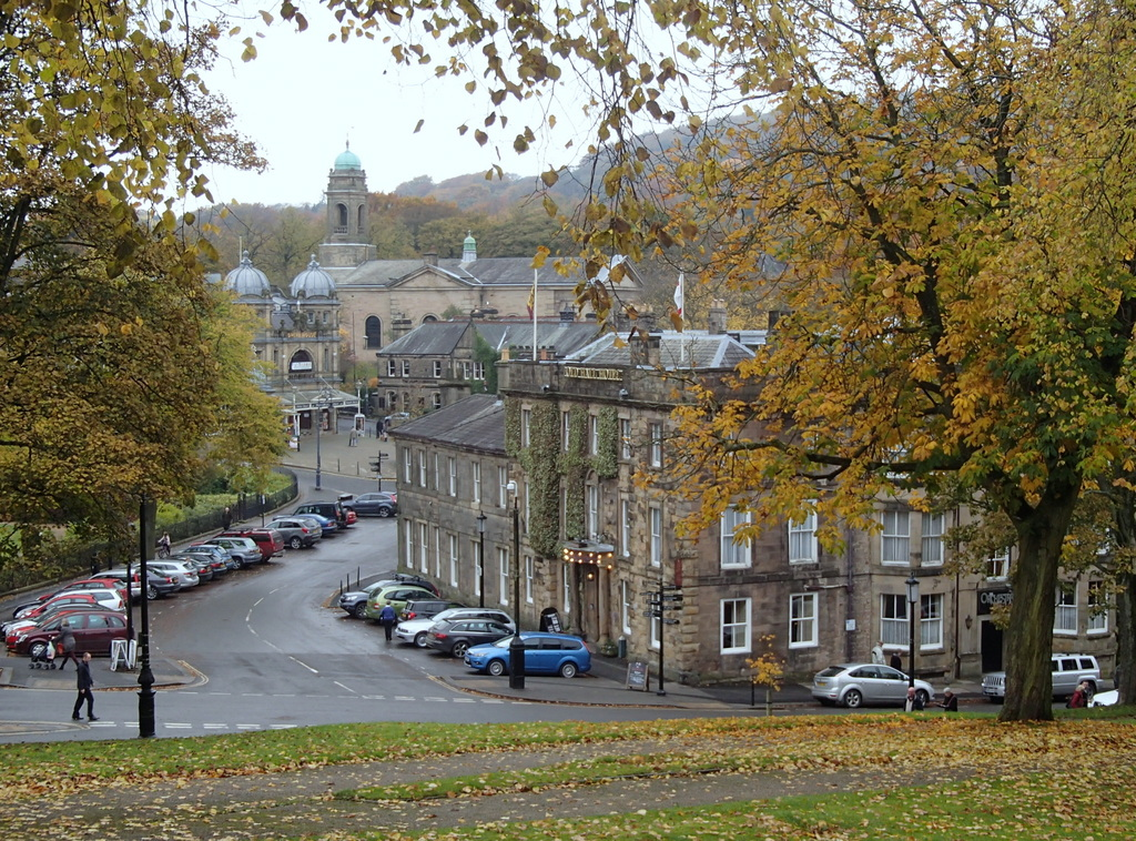 Buxton scene, autumn